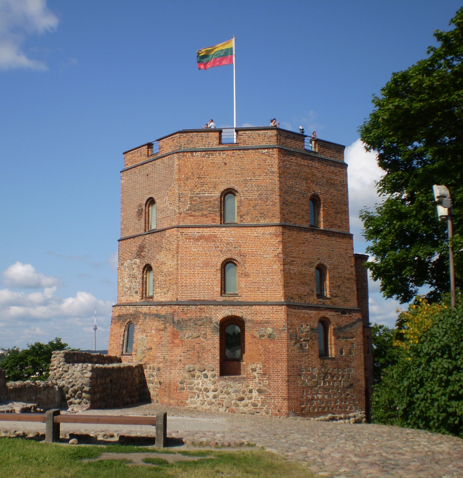 Gediminas Tower in Vilnius, Lithuania.